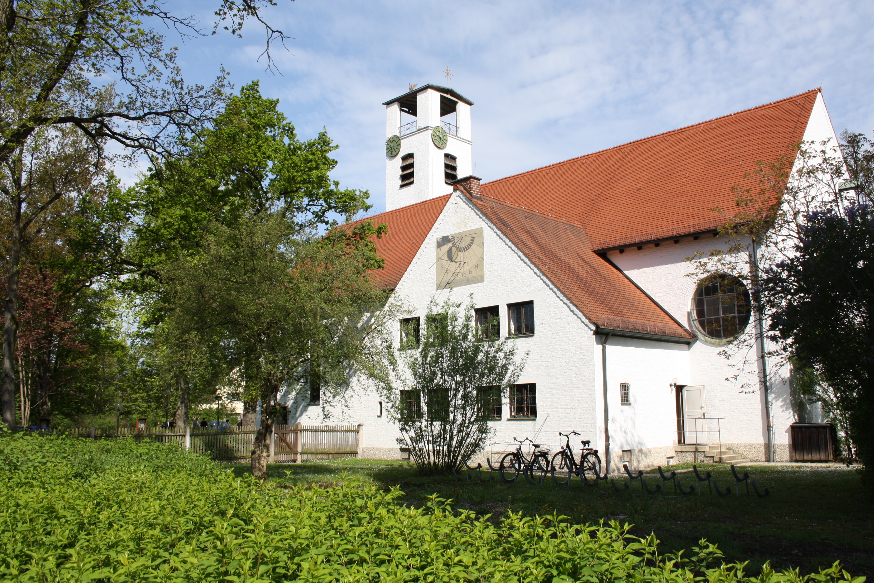 The Munich church St. Raphael.